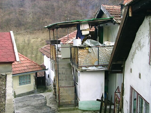 The village of Vranduk with a neighbouring castle, BiH